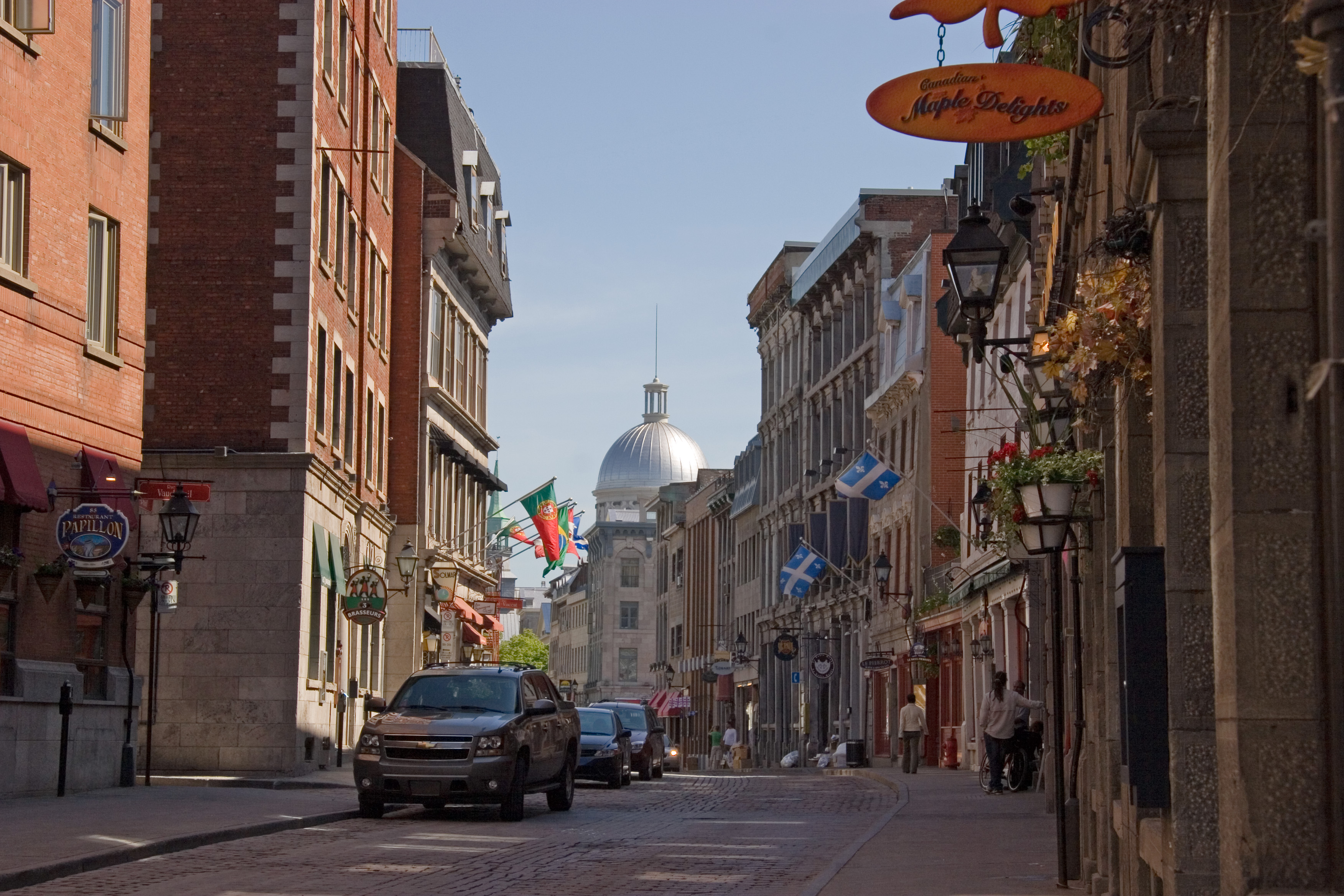 Vieux-Montréal